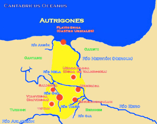 Historical territory of Autrigones tribe in Hispania.